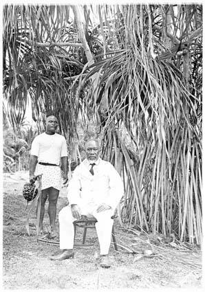 Oweida King of Nauru and the Royal Pandanas fruit holder